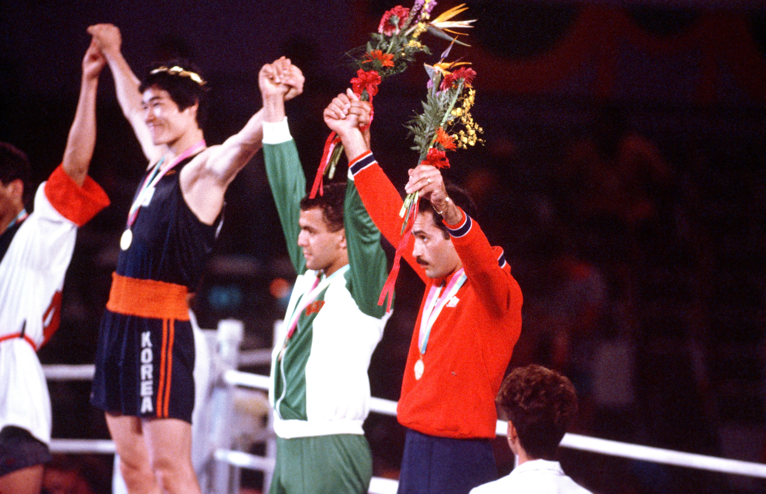 Aristides González, in red, representing Puerto Rico, after being presented with a bronze medal in the boxing competition at the 1984 Summer Olympics. Other winners are Shin Joon-Sup of South Korea, left, a gold medalist, and Mohamed Zaoui of Algeria, center, a bronze medalist.